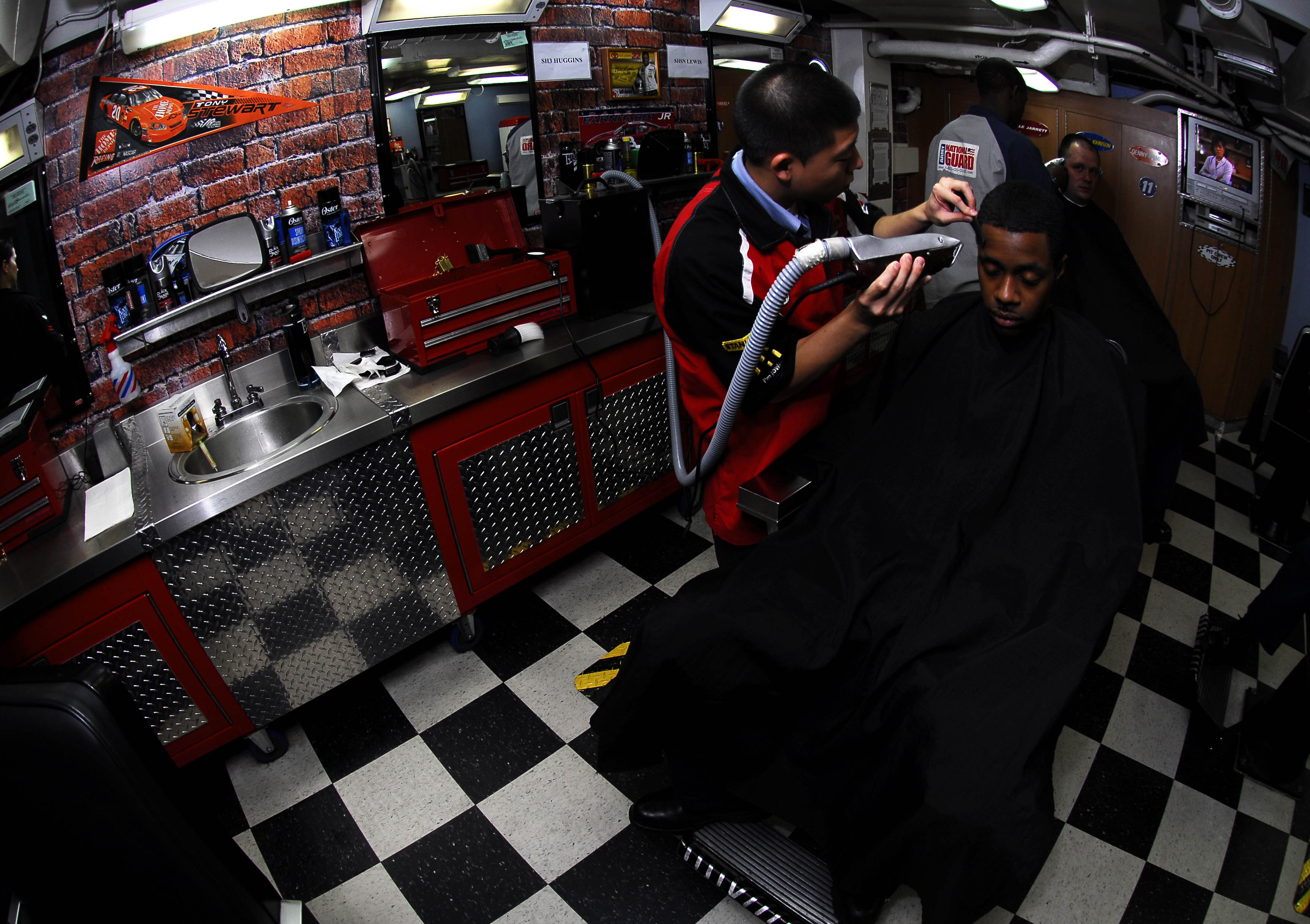 081110-N-9928E-012 PACIFIC OCEAN (Nov. 10, 2008) Ship's Serviceman Seaman Joseph Kim, left, from Sacramento, Calif., gives a haircut to Personnel Specialist Seaman Recruit Willie McDowell, from Charlotte, N.C., in the ship's barber shop aboard the Nimitz-class aircraft carrier USS John C. Stennis (CVN 74). Stennis is part of John C. Stennis Carrier Strike Group conducting a joint task force exercise off the coast of Southern California. (U.S. Navy photo by Mass Communication Specialist 3rd Class Josue L. Escobosa/Released)